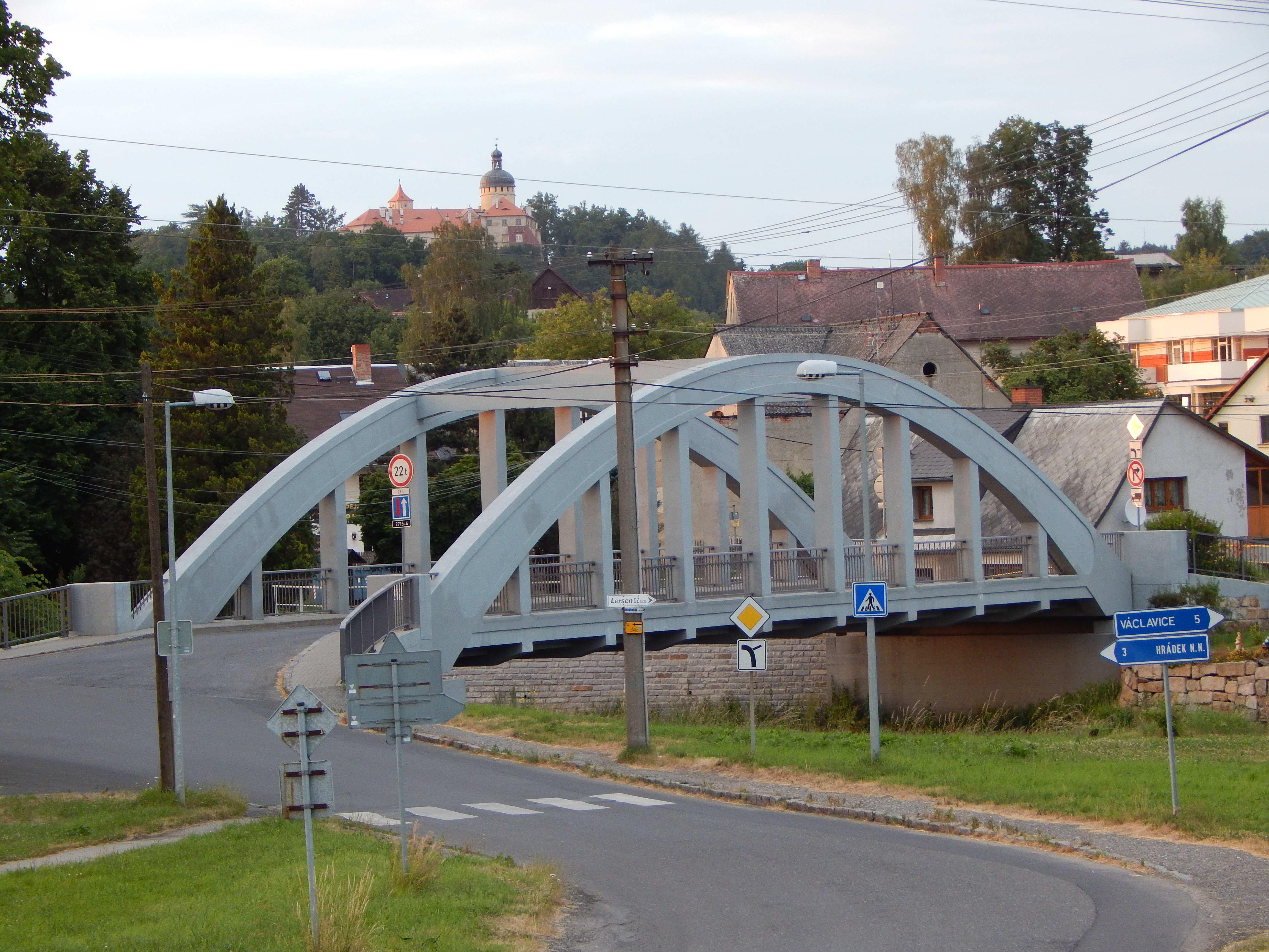 The bridge over the river Lusatian Neisse in the village Chotyně. In the background the castle Grabštejn.